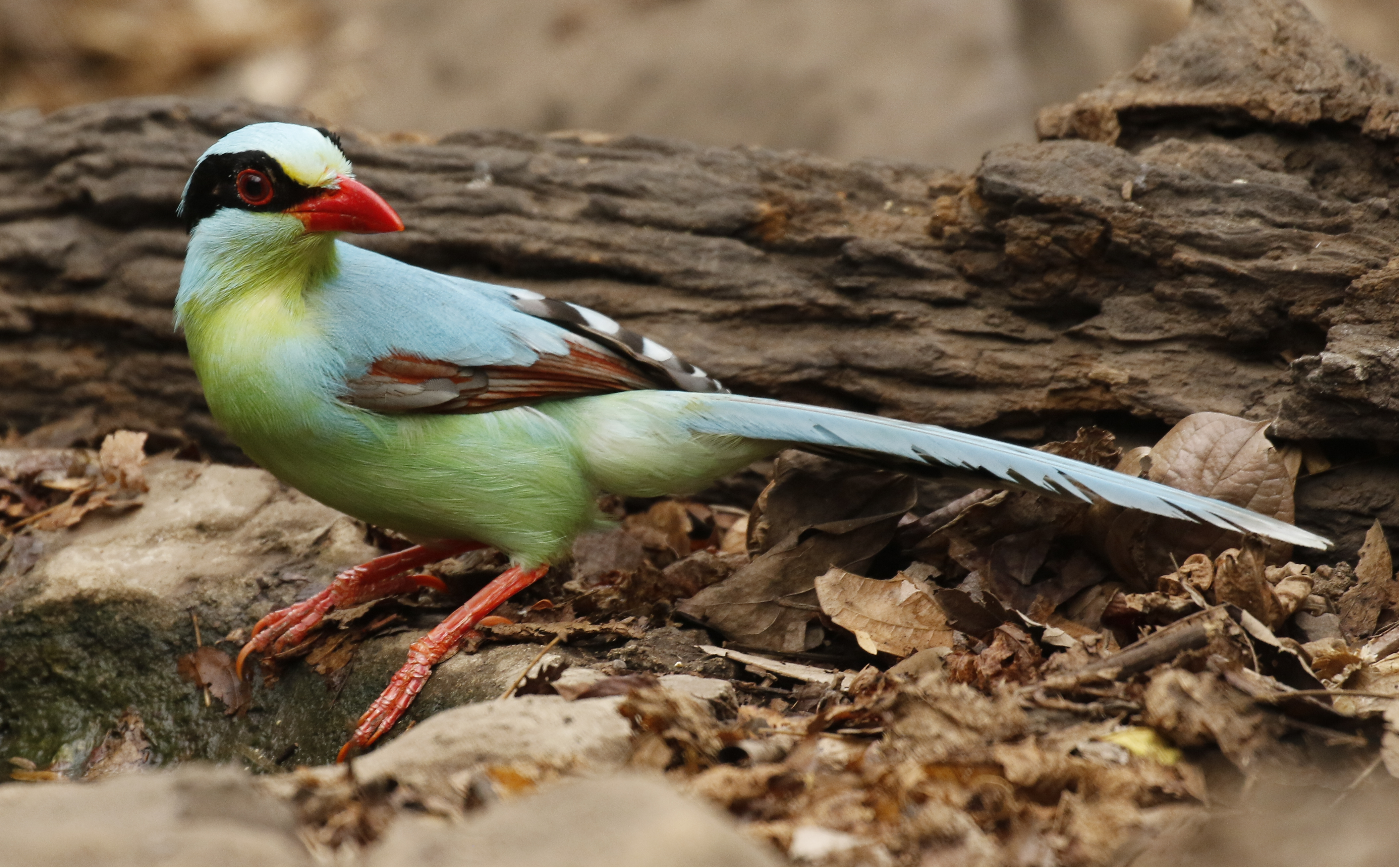 Kaeng Krachan Nat’l Park - Thailand